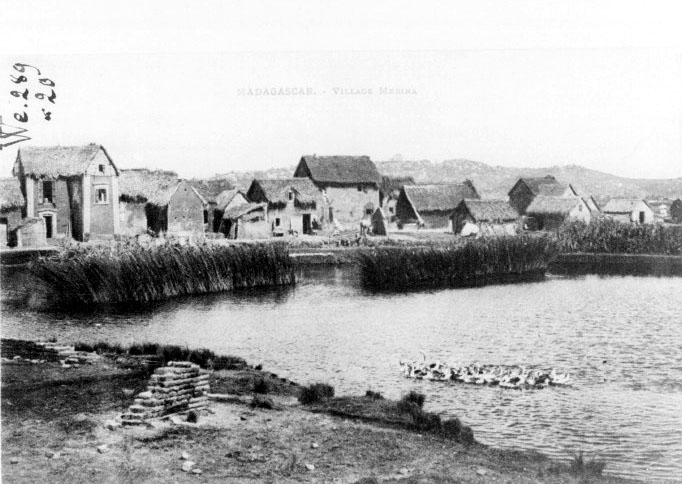 Merina village, Madagascar, 1908